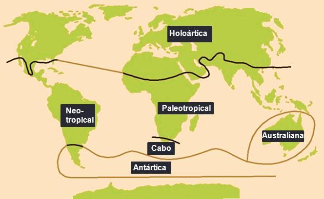 Plants Region